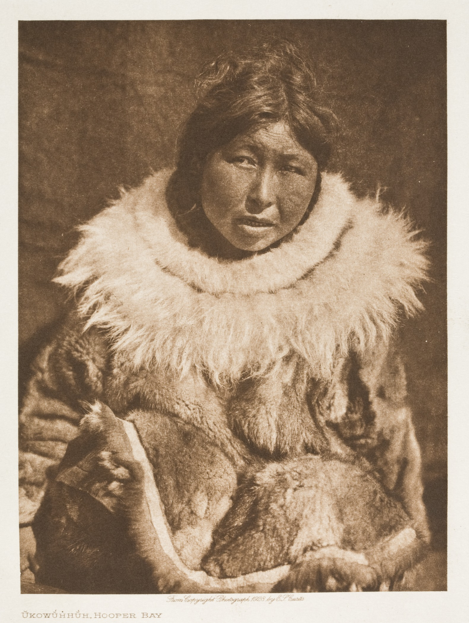 United States, 1928 Photographs Photogravure on paper Gift of Mark and Pam Story (AC1997.271.44) Photography